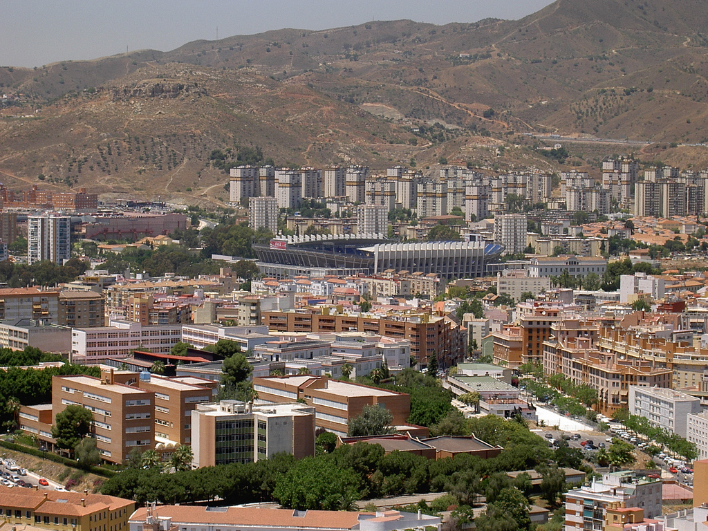 North area of the city of Málaga, Spain